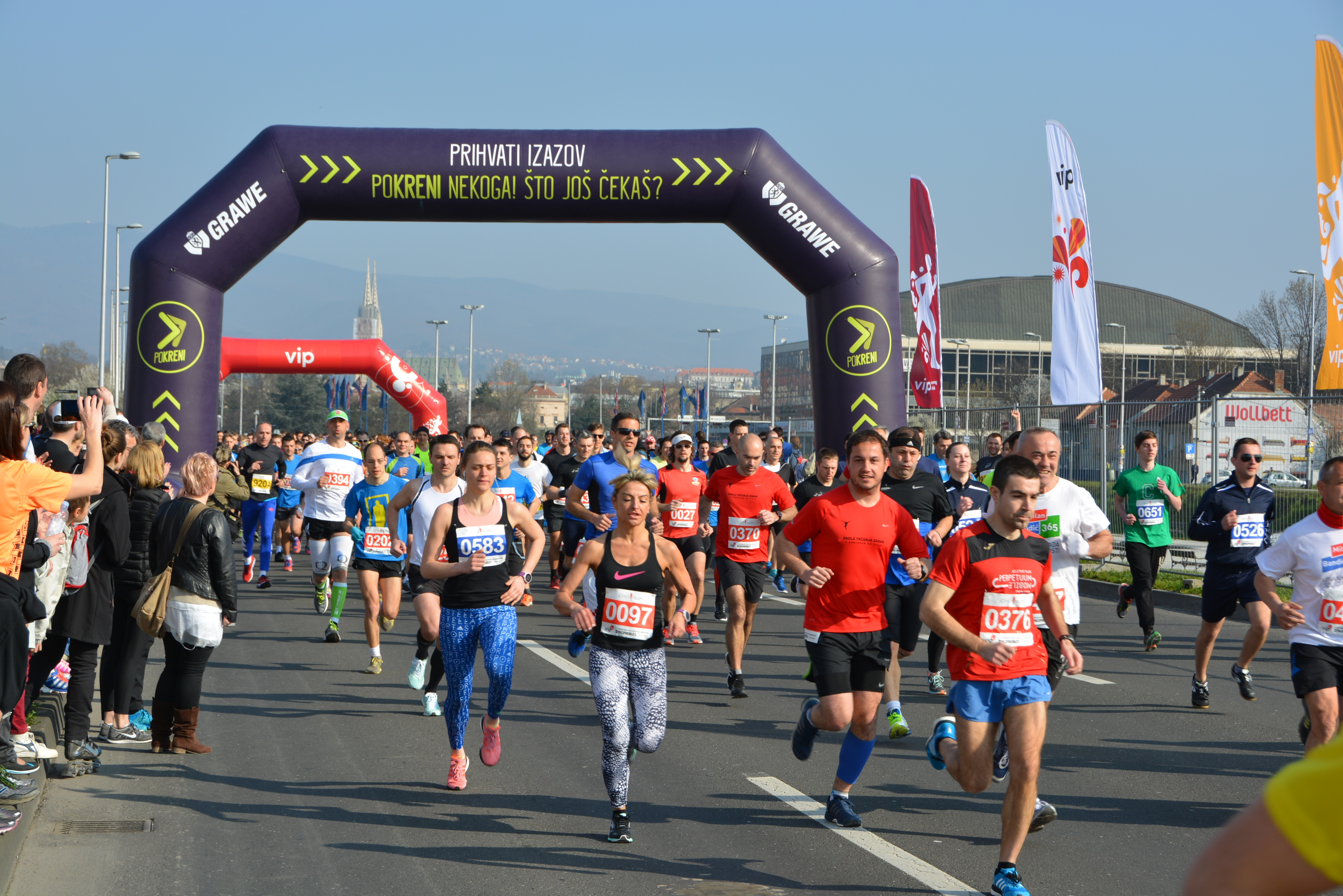 Zagreb21 half marathon race.